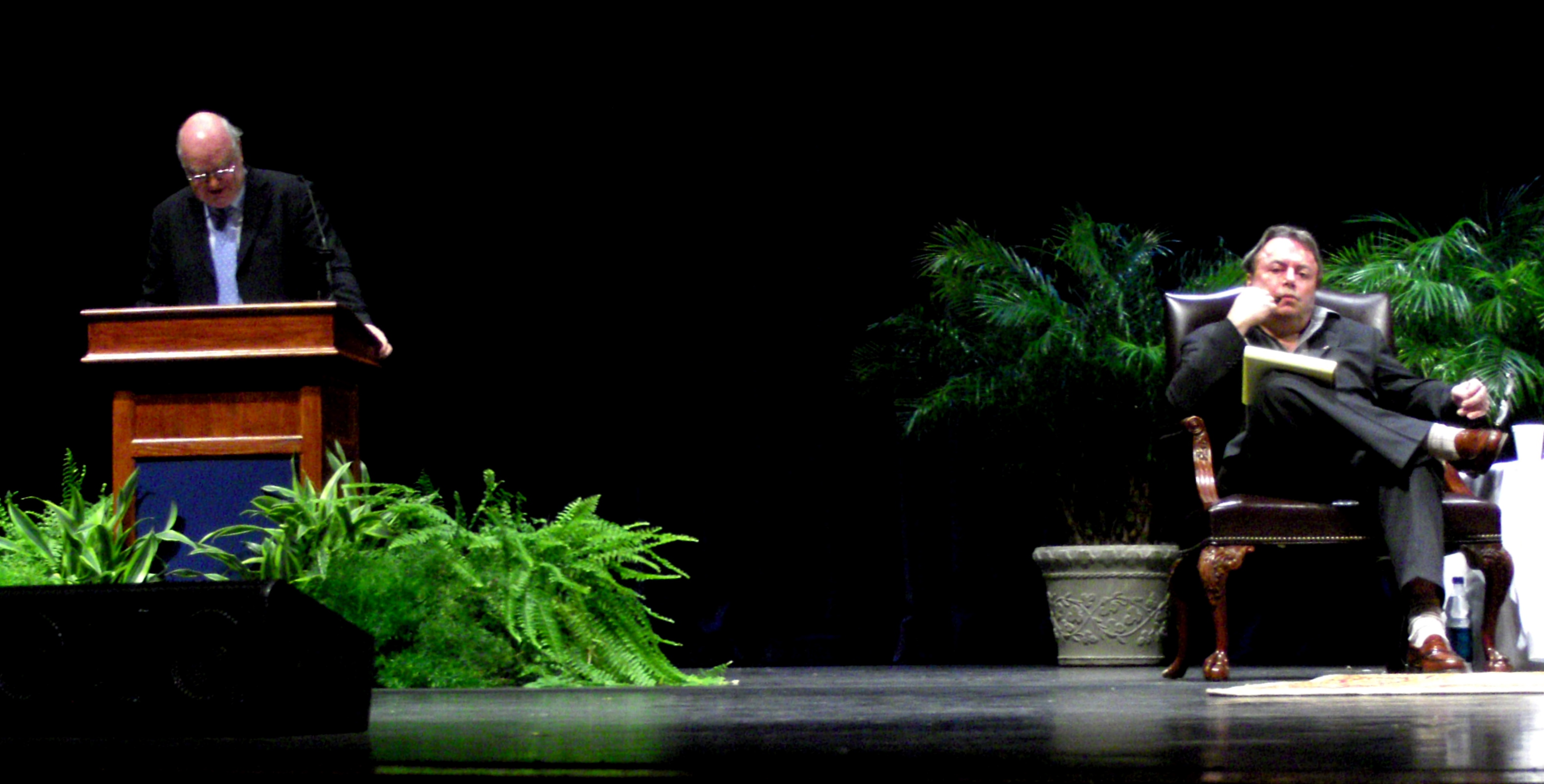 Christopher Hitchens v. John Lennox Samford University in Birmingham, Alabama 3 March 2009 (taken from second row w/o a flash - obviously not the best...)